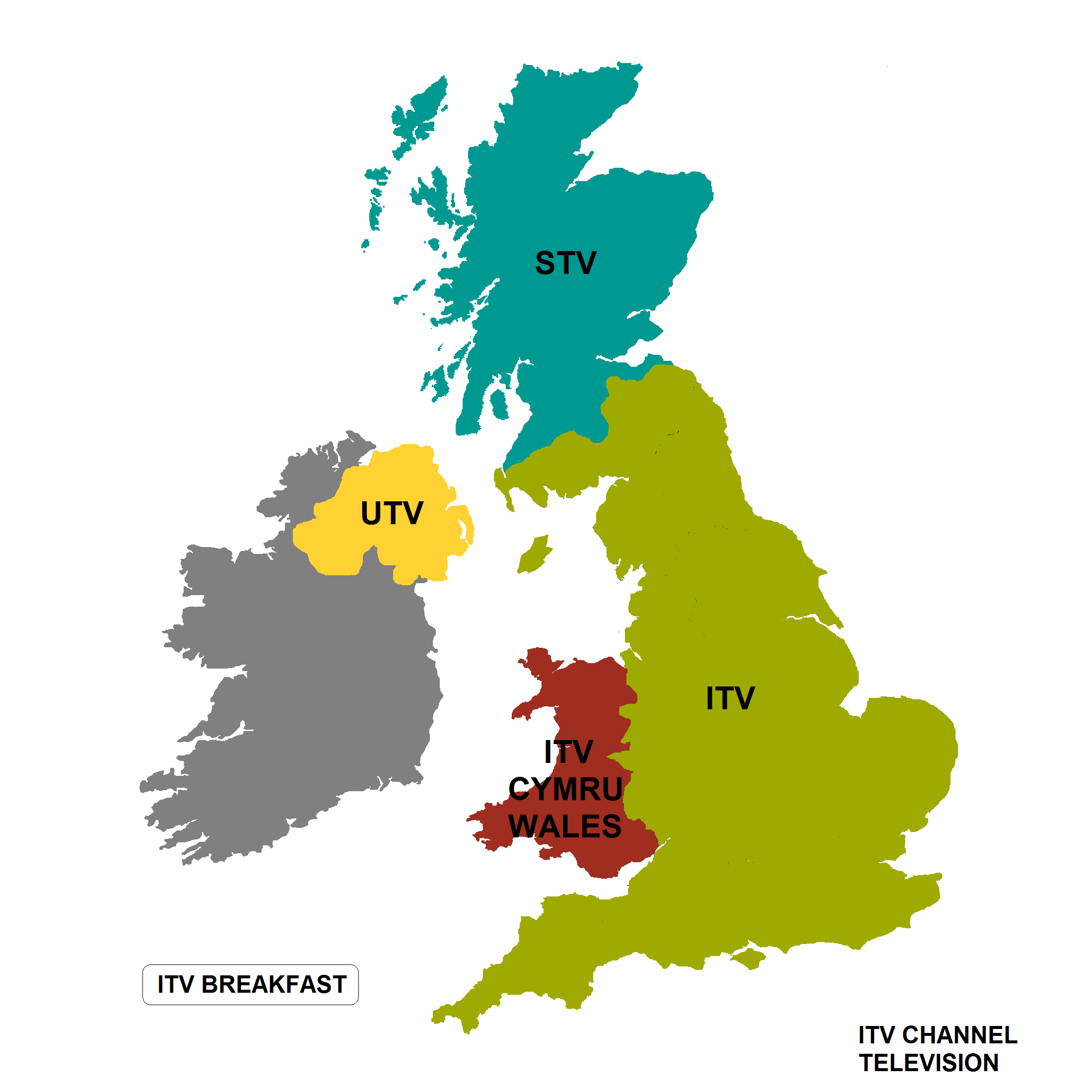 Map of the british TV network ITV in 2013, with the names used on-screen